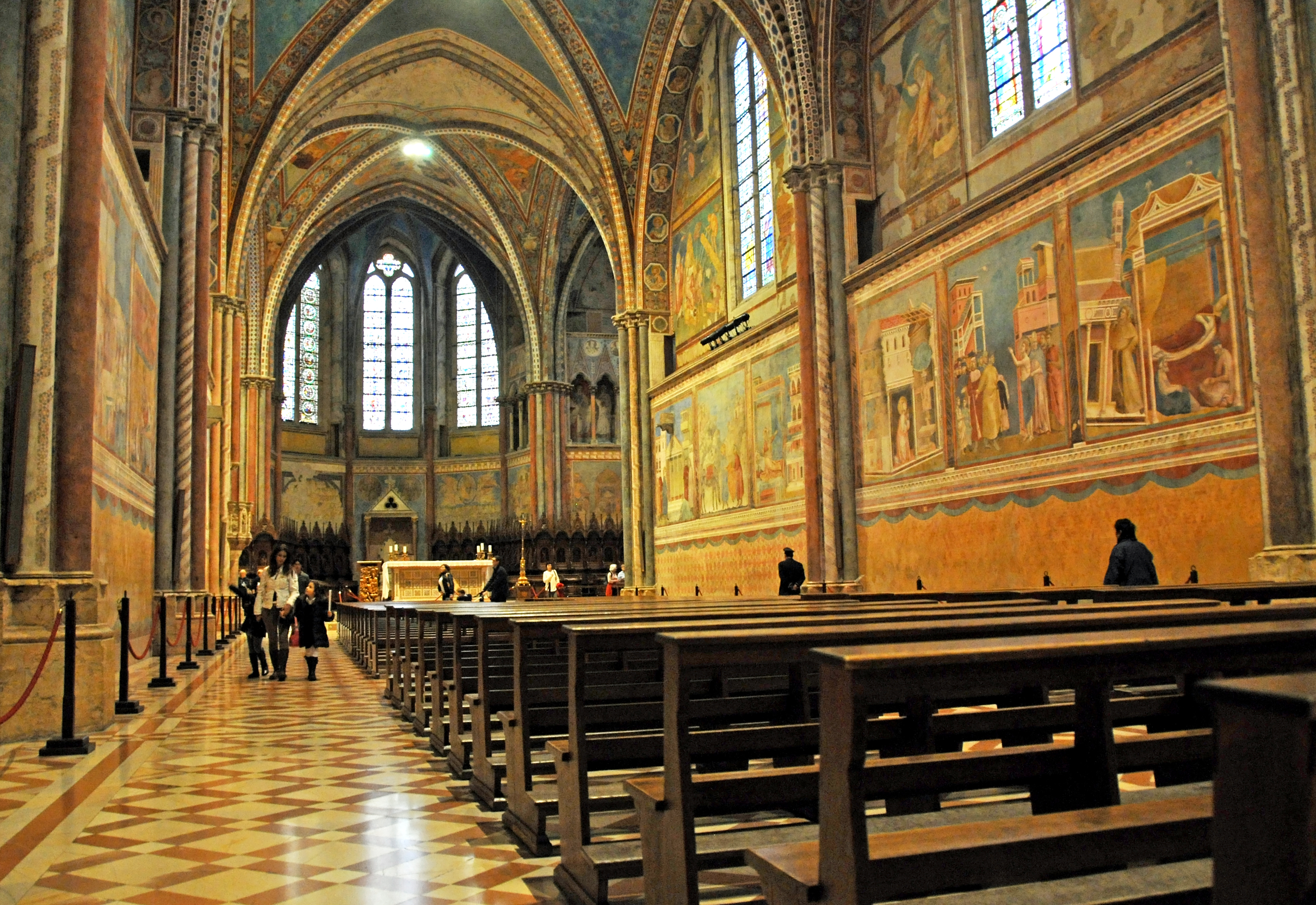 Upper Basilica in Assisi